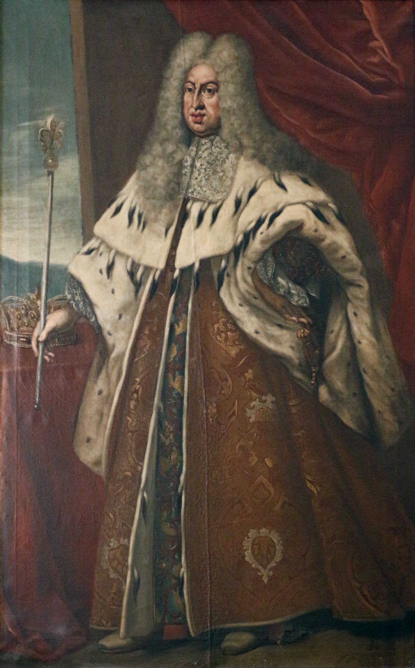 Portrait of Gian Gastone de' Medici in grand ducal robes